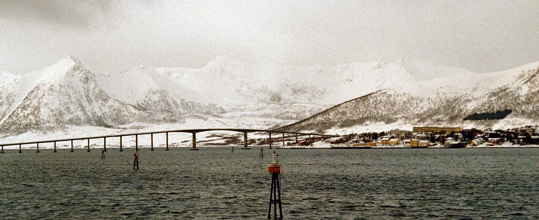 Risøyhamn, Norway winter 2005-2006